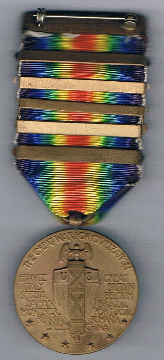 WW I Victory Medal back view as awarded to the US Army servicemen who fought in France against the Germans. Top shows the back of the battle clasps. Bottom medal has "THE GREAT WARRIOR CIVILIZATION" curved along the top in all caps. The bottom has 3 stars on the left and right. The middle has a shield with U on the left and S on the right. A staff of wrapped rods is on top of the shield. On top of the staff is something that looks like an eagle or scabbard? The names of the participating countries are inscribed to the left and right of the shield. Right side: Great Britain, Belgium, Brazil, Portugal, Rumania (spelled with U instead of an O) and China. Left side: France, Italy, Serbia, Japan, Montenegro, Russia and Greece. Serviceman fought in France against the German 1917 - 1919. Medal awarded April 1921.